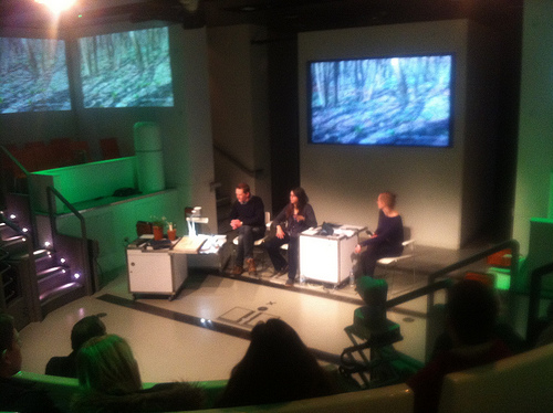 Nature Live event in the Attenborough Studio, Natural History Museum on 23rd January 2012.